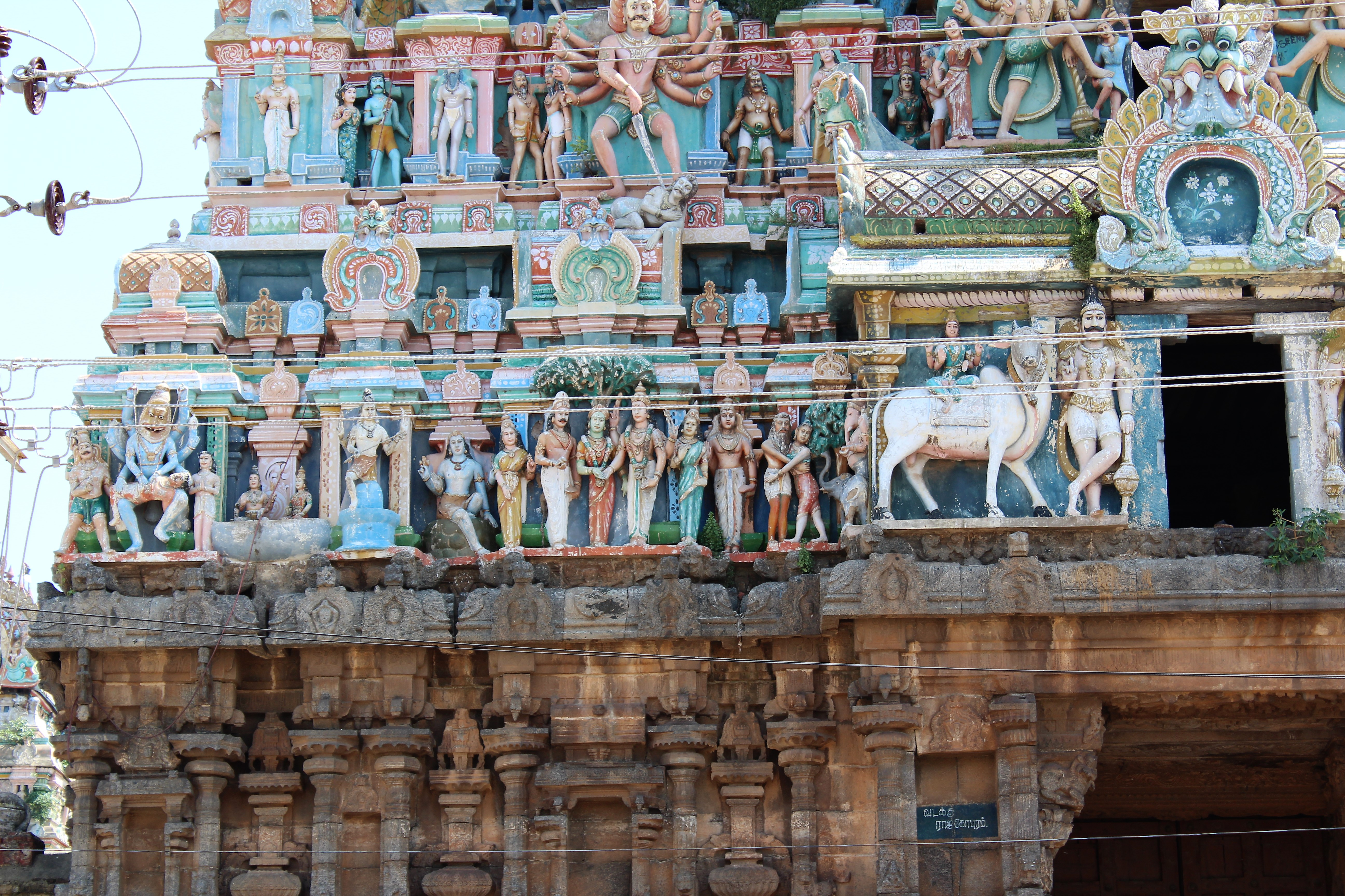 Virudhagiriswarar temple, Viruthachalam